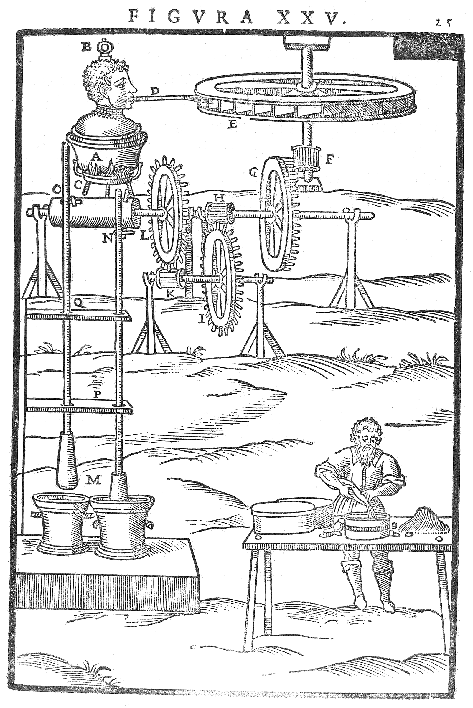 Steam or hot air turbine powering stamps.